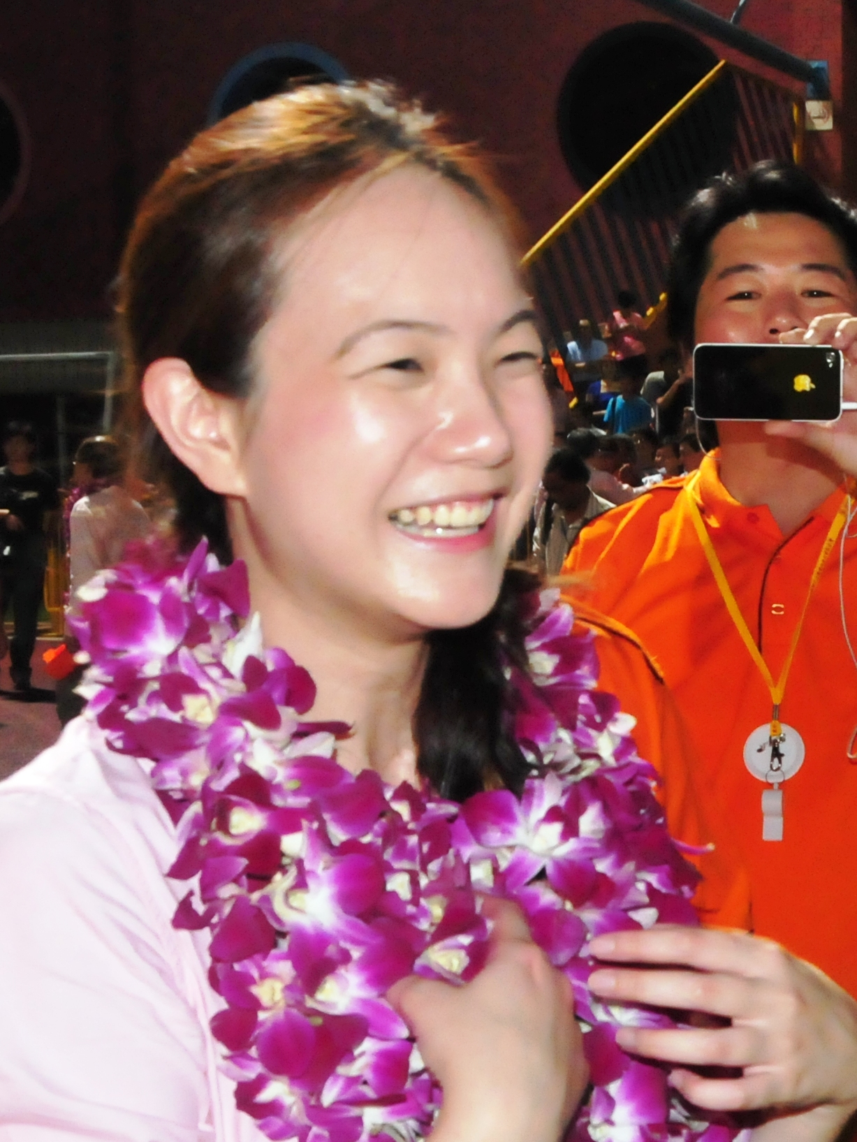 Nicole Seah during her rally speech at Tampines Stadium as a candidate of the National Solidarity Party during the Singaporean general election, 2011.